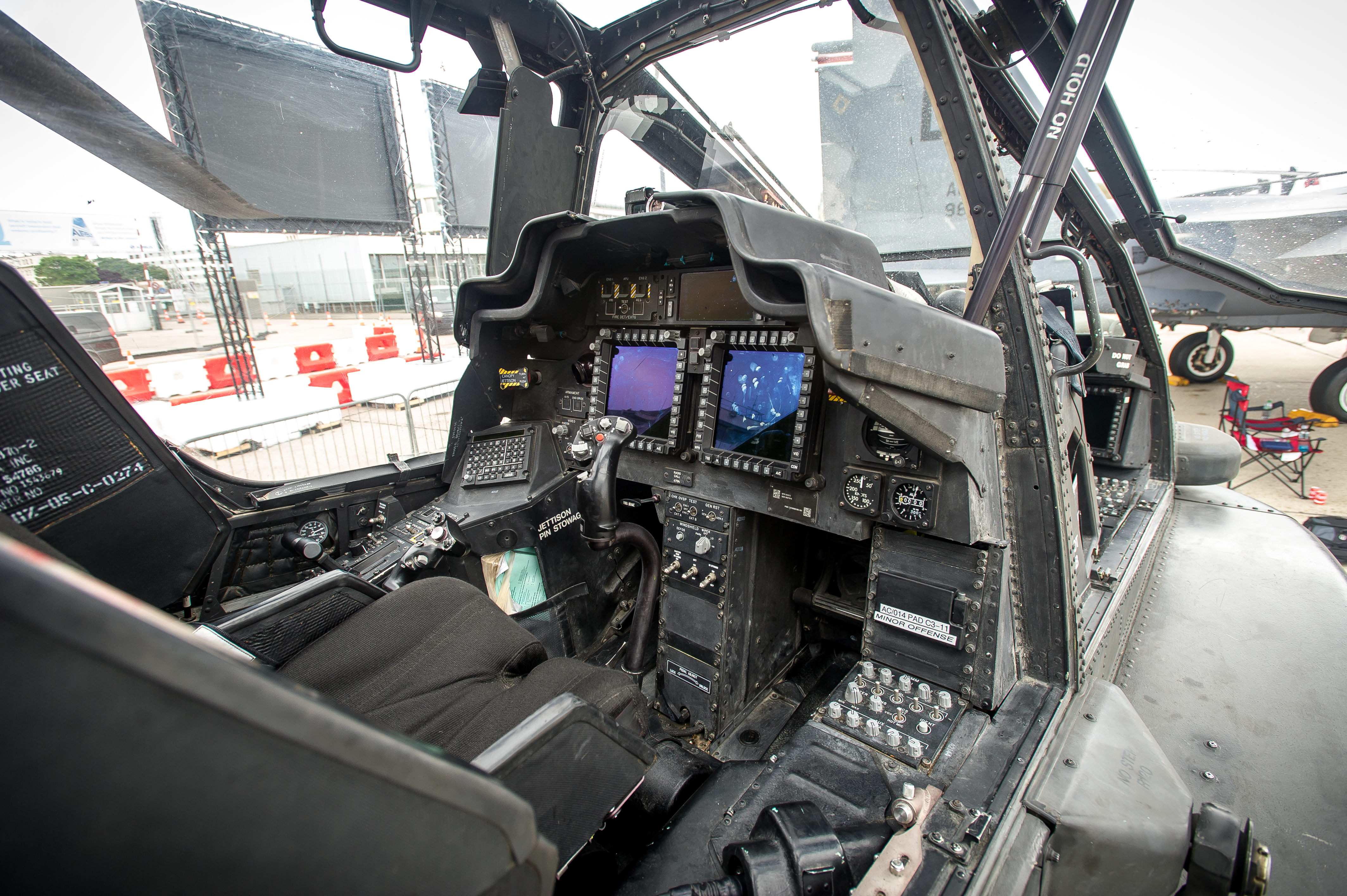 150618-F-RN211-226 Paris Air Show 2015.